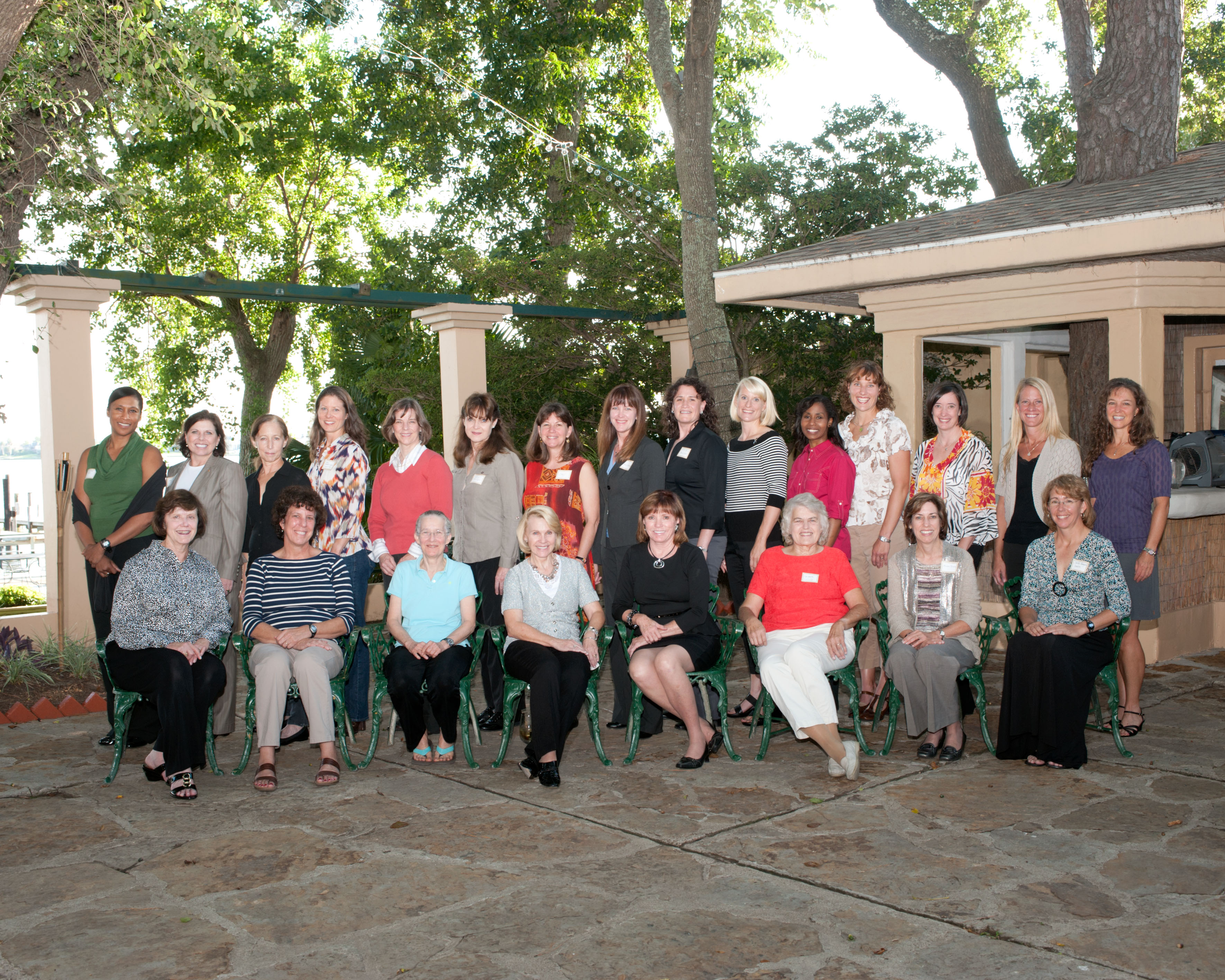 22 astronauts and Johnson Space Center's first female director, Carolyn Huntoon, met in the fall of 2012 to honor the late astronaut Sally Ride and her legacy. Seated (from left): Carolyn Huntoon, Ellen Baker, Mary Cleave, Rhea Seddon, Anna Fisher, Shannon Lucid, Ellen Ochoa, Sandy Magnus. Standing (from left): Jeanette Epps, Mary Ellen Weber, Marsha Ivins, Tracy Caldwell Dyson, Bonnie Dunbar, Tammy Jernigan, Cady Coleman ( Janet Kavandi, Serena Aunon, Kate Rubins, Stephanie Wilson, Dottie Metcalf-Lindenburger, Megan McArthur, Karen Nyberg, Lisa Nowak